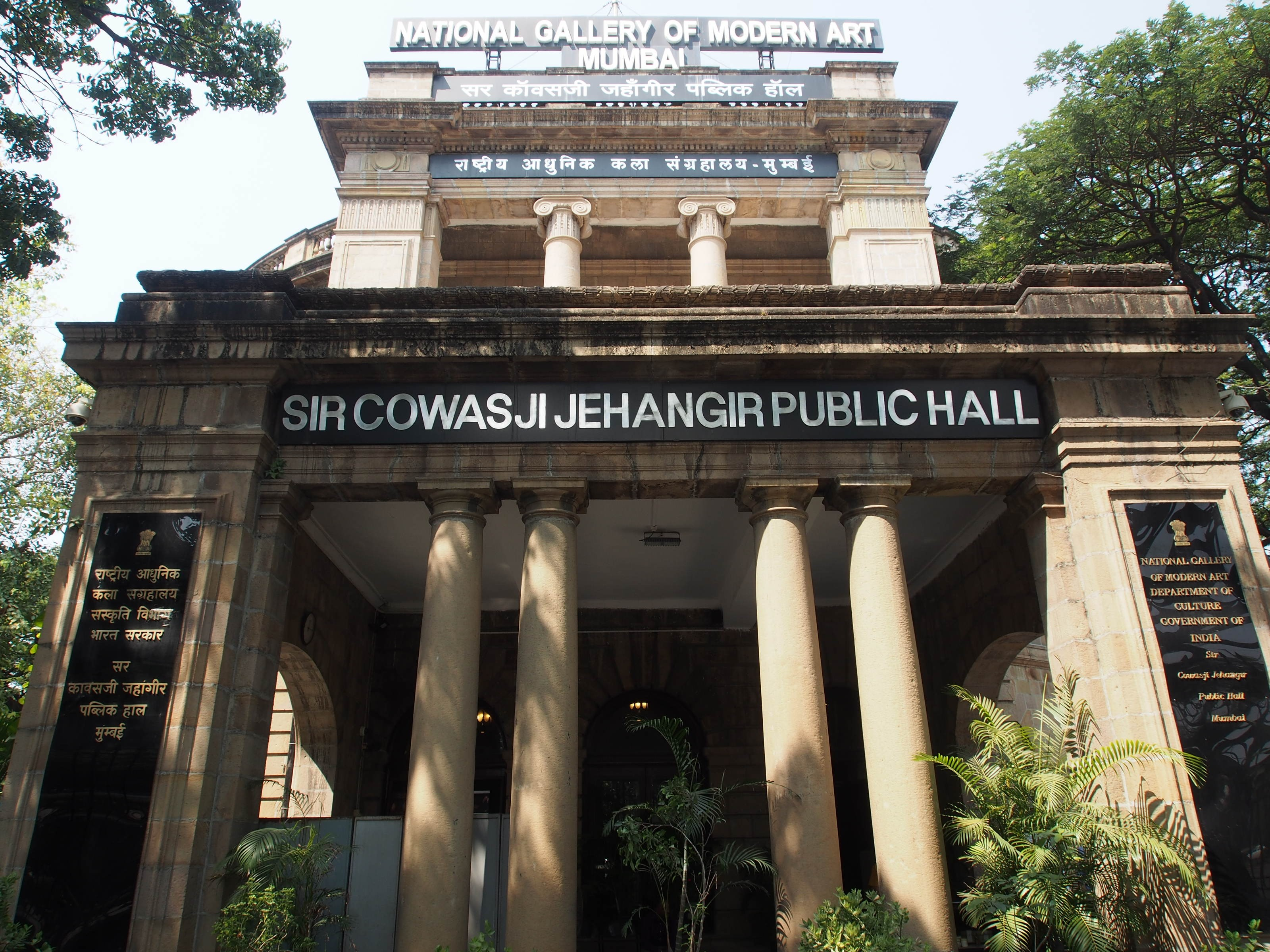 Sir Cowasji Jehangir Hall, Mumbai